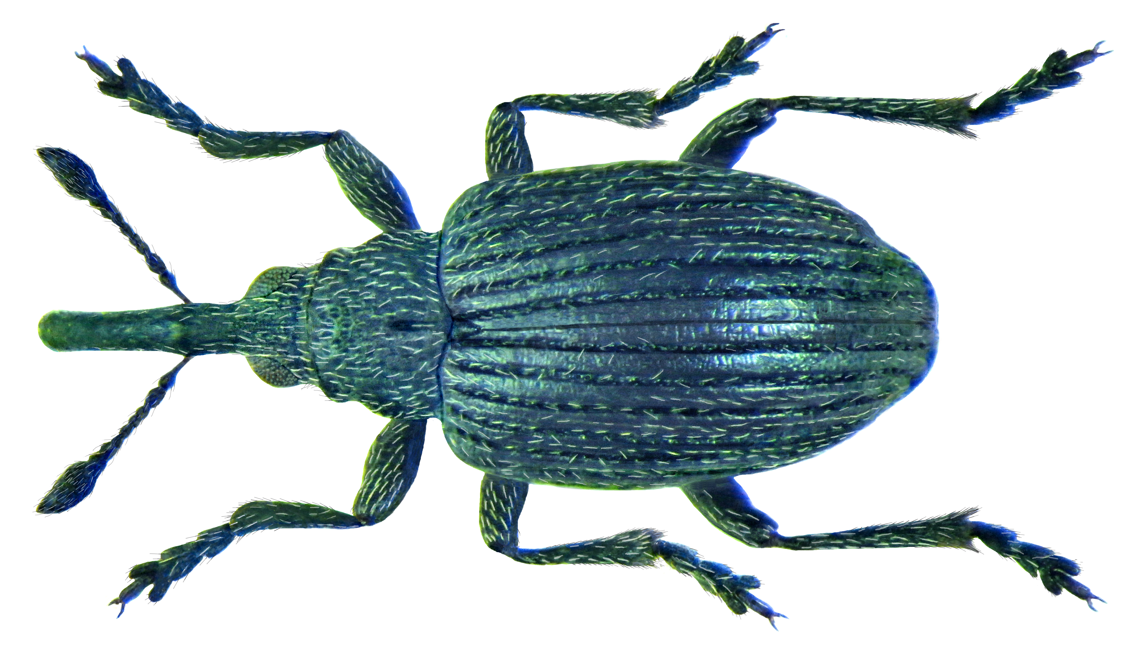 Family: Apionidae Size: 2 mm (1,8-2,2 mm) Origin: Siberia, Western Asia, Europe, North Africa Ecology; lives on Mentha species Location: Britain, New Forest leg.det. P.Harwood, 26.X.1936 Coll. Oxford University Museum of Natural History Photo: U.Schmidt, 2013